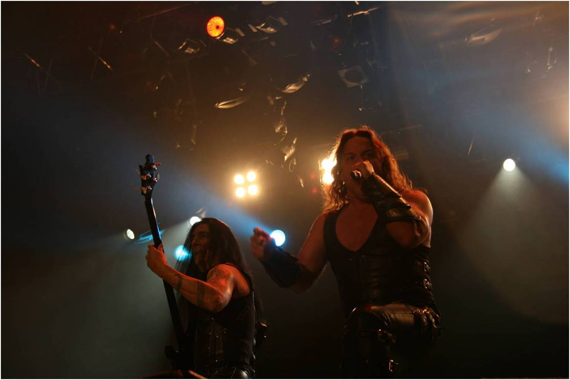 Manowar at Norway Rock Festival 2009